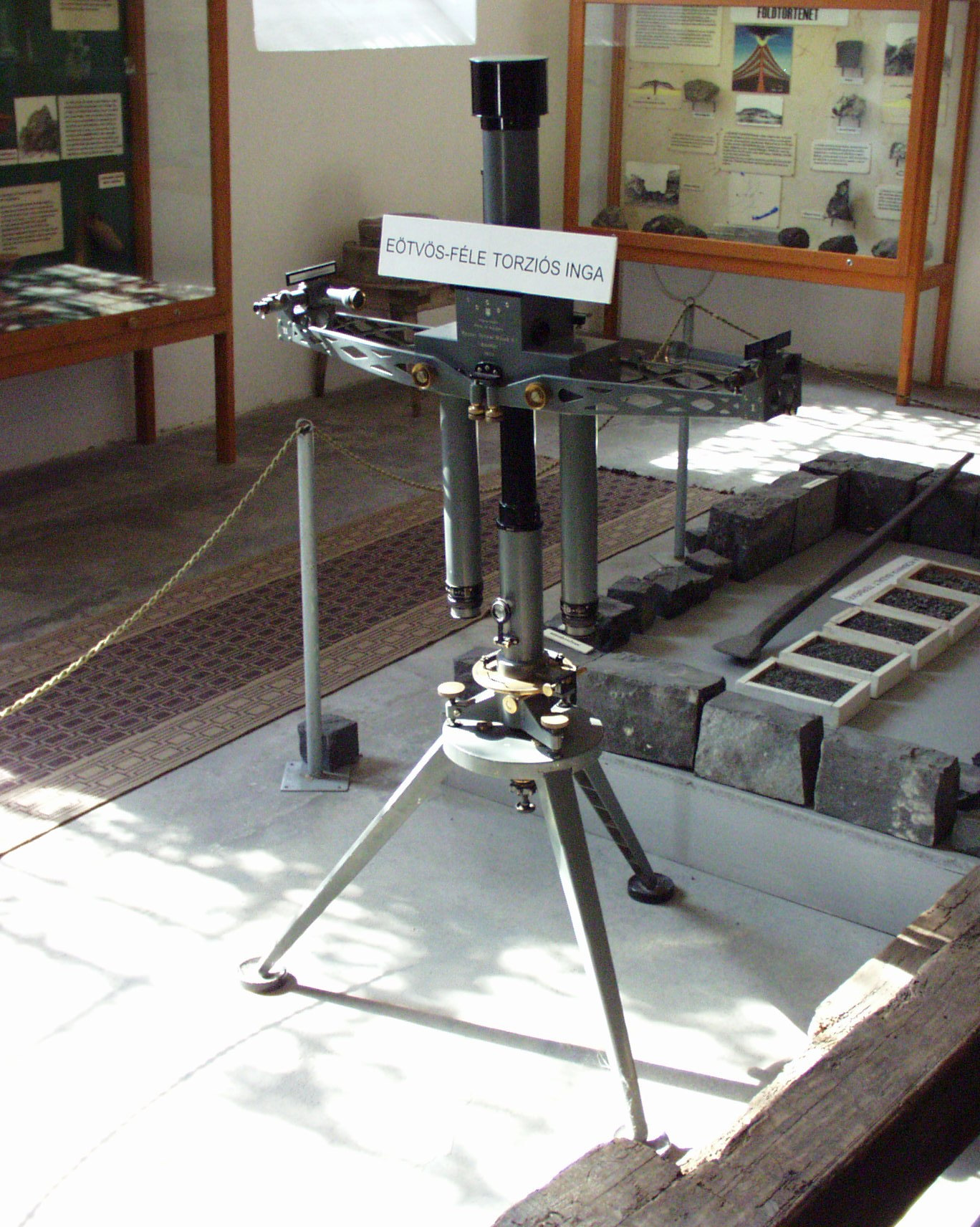 Torsion pendulum (Eötvös pendulum) in Sághegyi Múzeum.